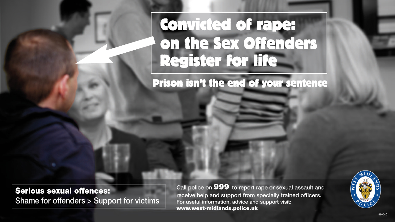 These photographs form part of our Rape and Serious Sexual Offences campaign. Sex offenders who delude themselves by thinking they have done absolutely nothing wrong are targeted by the force's hard-hitting campaign aimed at raising awareness of what actually constitutes a sexual assault and also to encourage victims to report crimes to police. The campaign is backed by 'Louise' who was raped by a man she met in a West Midlands nightclub. He was later jailed for six years. Listen to her story here: is.gd/Khld2s. Learn more about our campaign here: is.gd/vDi9B1.